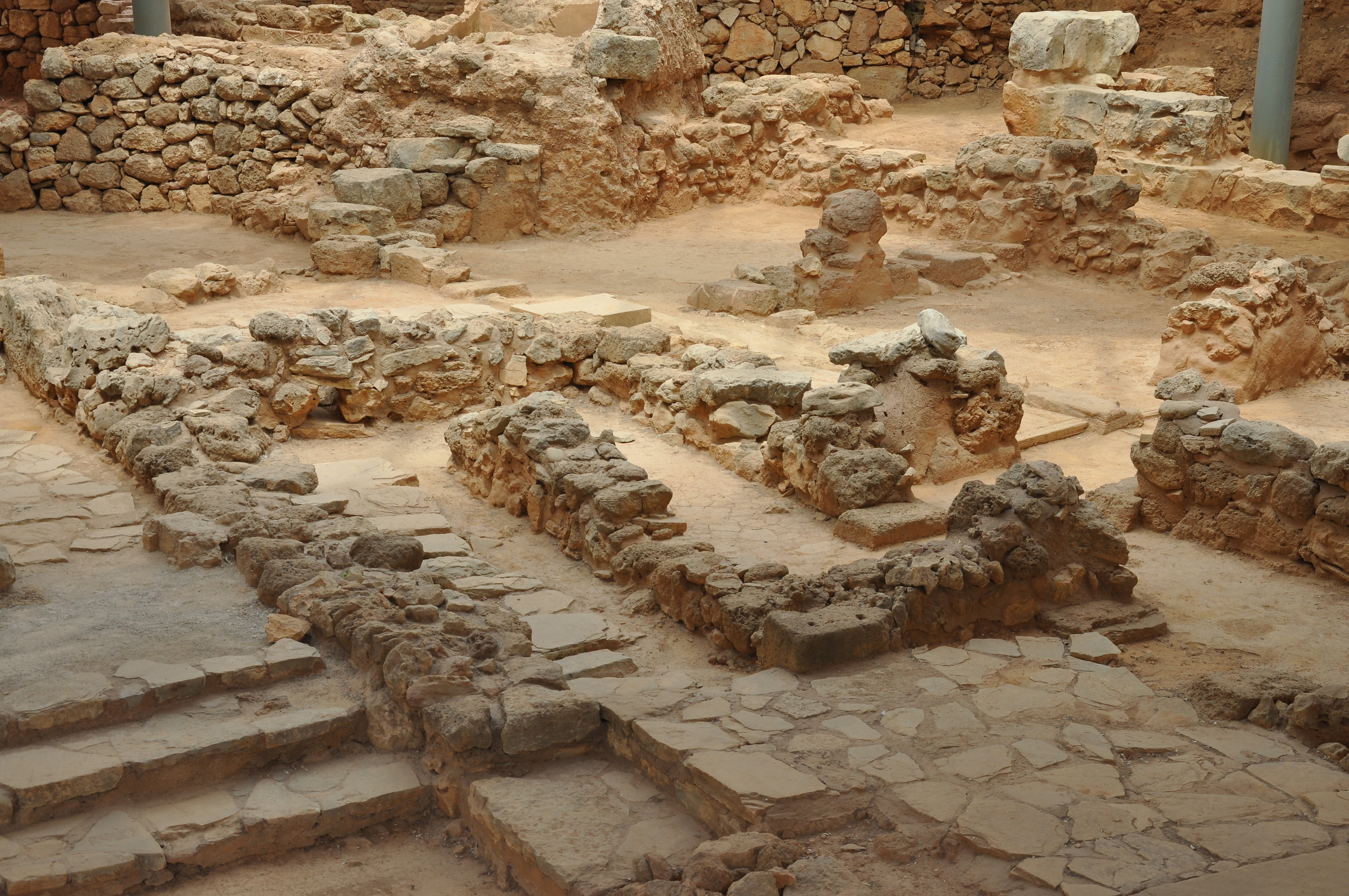 Excavations of Minoan city of Kydonia in the in Kastelli-quarter in Chania, Crete, Greece.